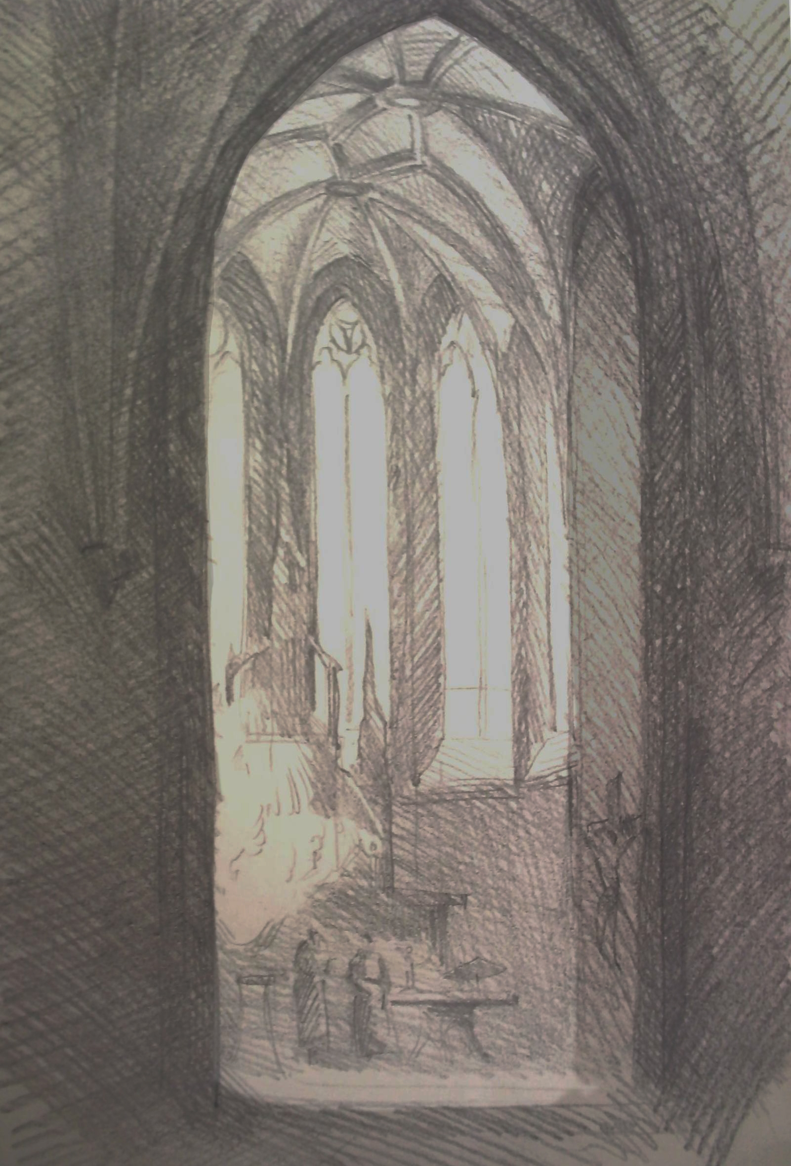 Presbytery sketch